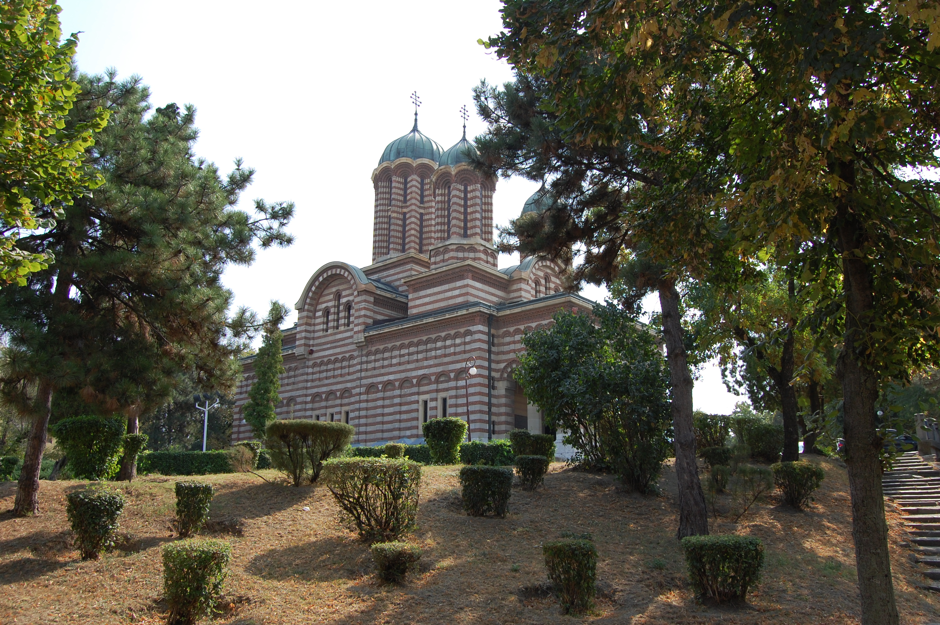 St. Dumitru Church at Craiove, rebuilt by the French architect André Lecomte du Nouy between 1889 - 1893